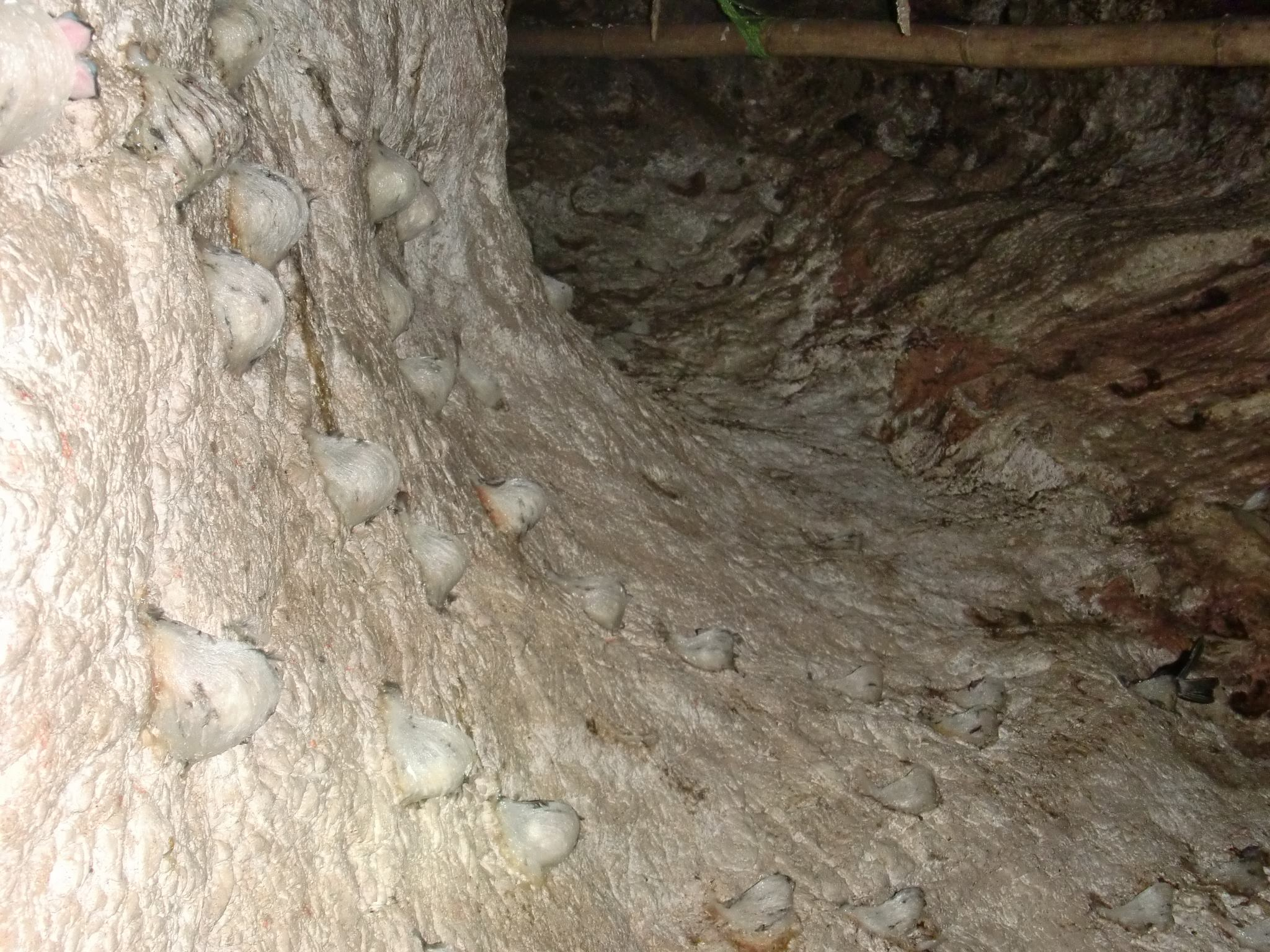 Natural Bird's Nest in one of the cave in Thai Bird's Nest Island.